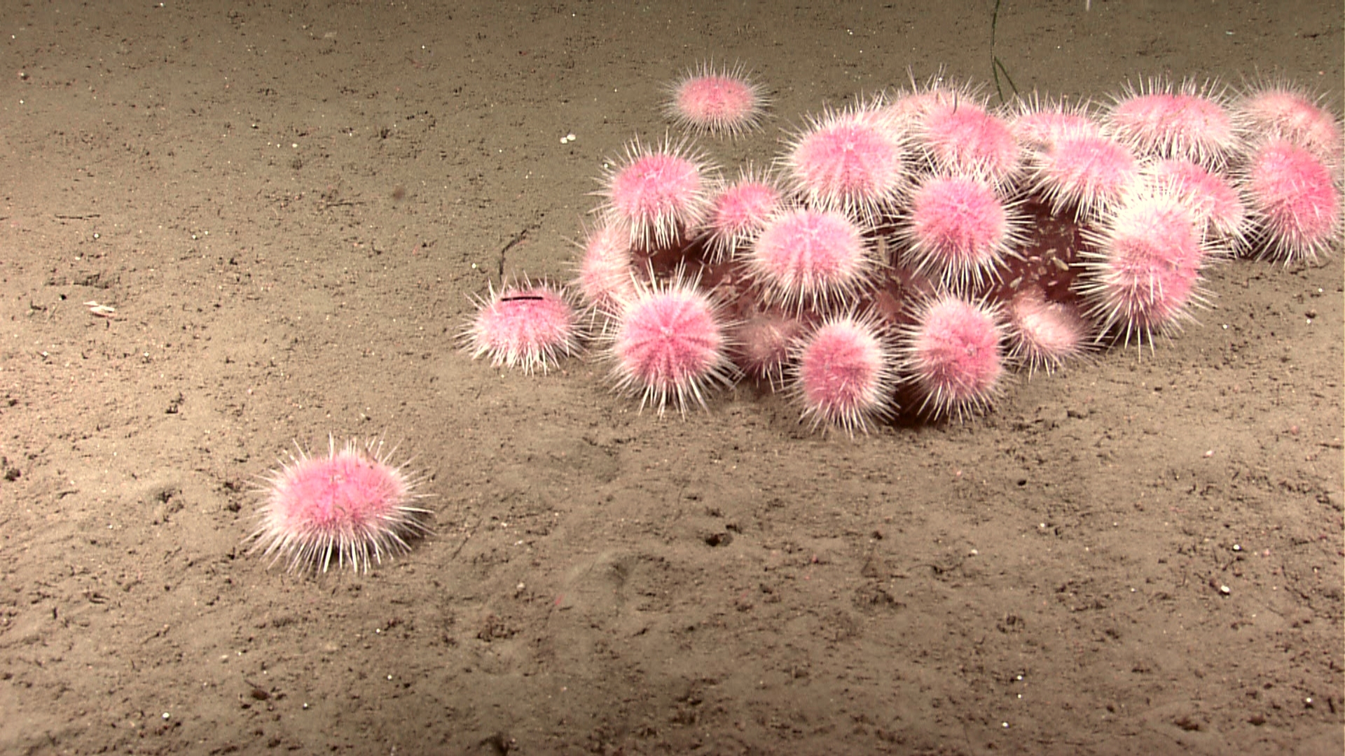 An aggregation of sea urchins (Strongylocentrotus fragilis) apparently devouring a fairly large dead creature. Image ID: expl2777, Voyage To Inner Space - Exploring the Seas With NOAA Collect Location: California, Channel Islands, Santa Cruz Is. area Photo Date: 2011 April 22 Credit: NOAA Okeanos Explorer Program